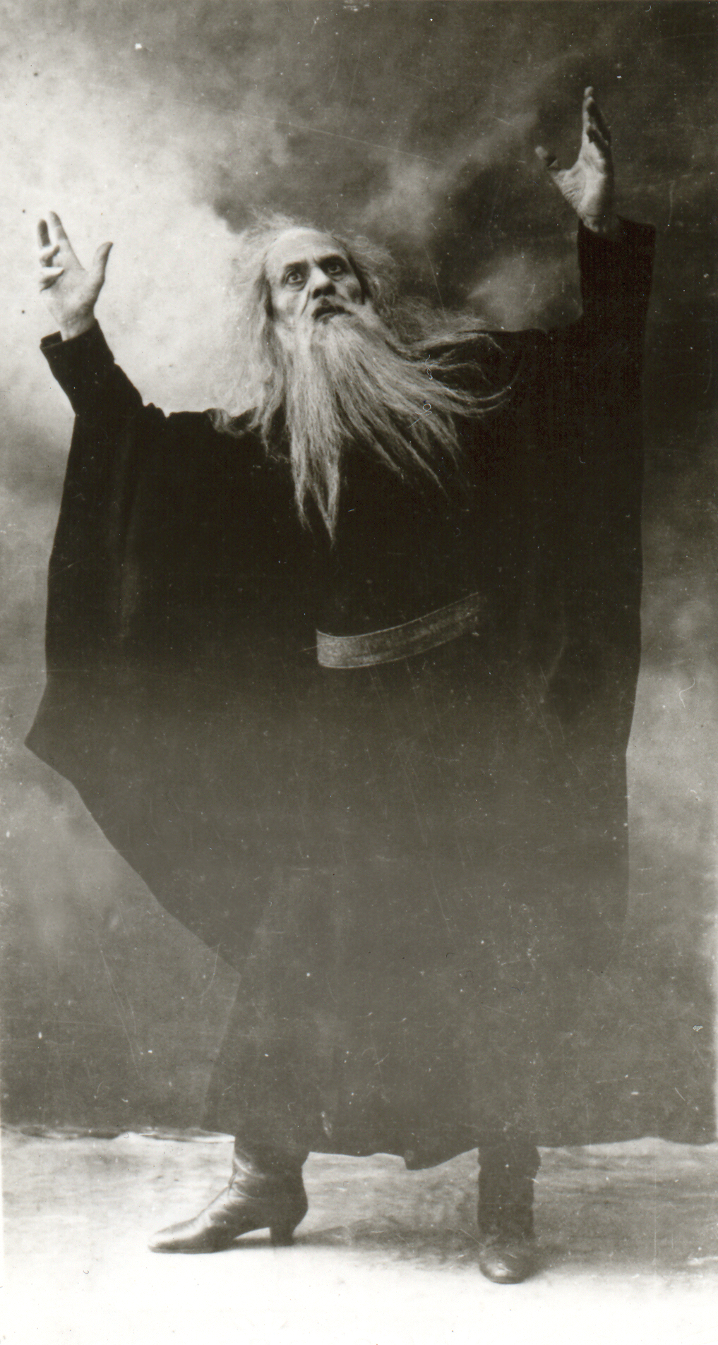 Dimitrije Ružić, King Lear, W. Shakespeare, SNT, Novi Sad, approx 1899 (Photo studio of Samuel Singer, Sombor) Srpski (latinica): Dimitrije Ružić, Kralj Lir, V. Šekspir, SNP, Novi Sad, oko 1899. (Atelje Samuela Singera, Sombor) Српски (ћирилица): Димитрије Ружић, Краљ Лир, В. Шекспир, СНП, Нови Сад, око 1899. (Атеље Самуела Сингера, Сомбор)